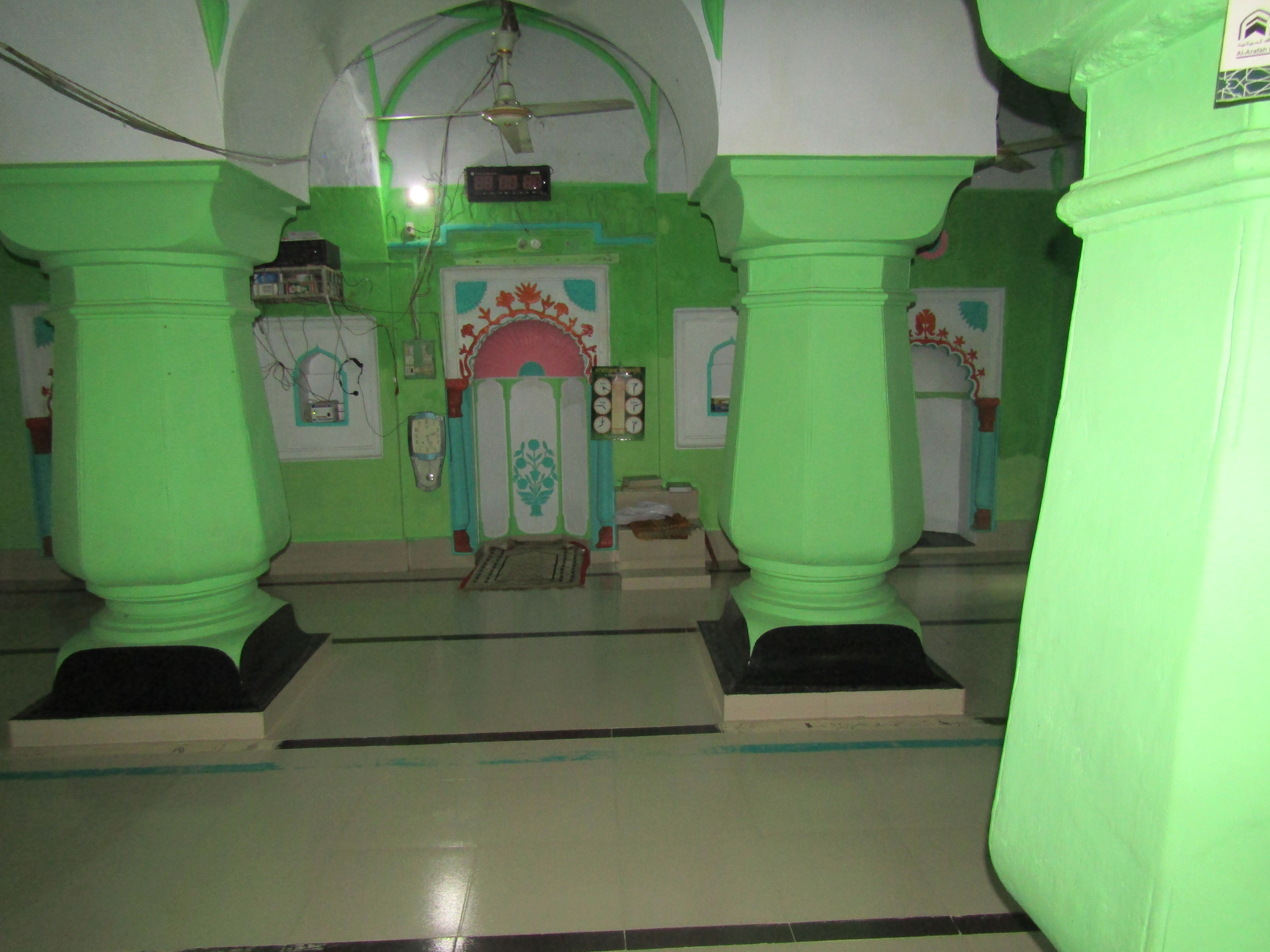 Laldighi Nine domed Mosque